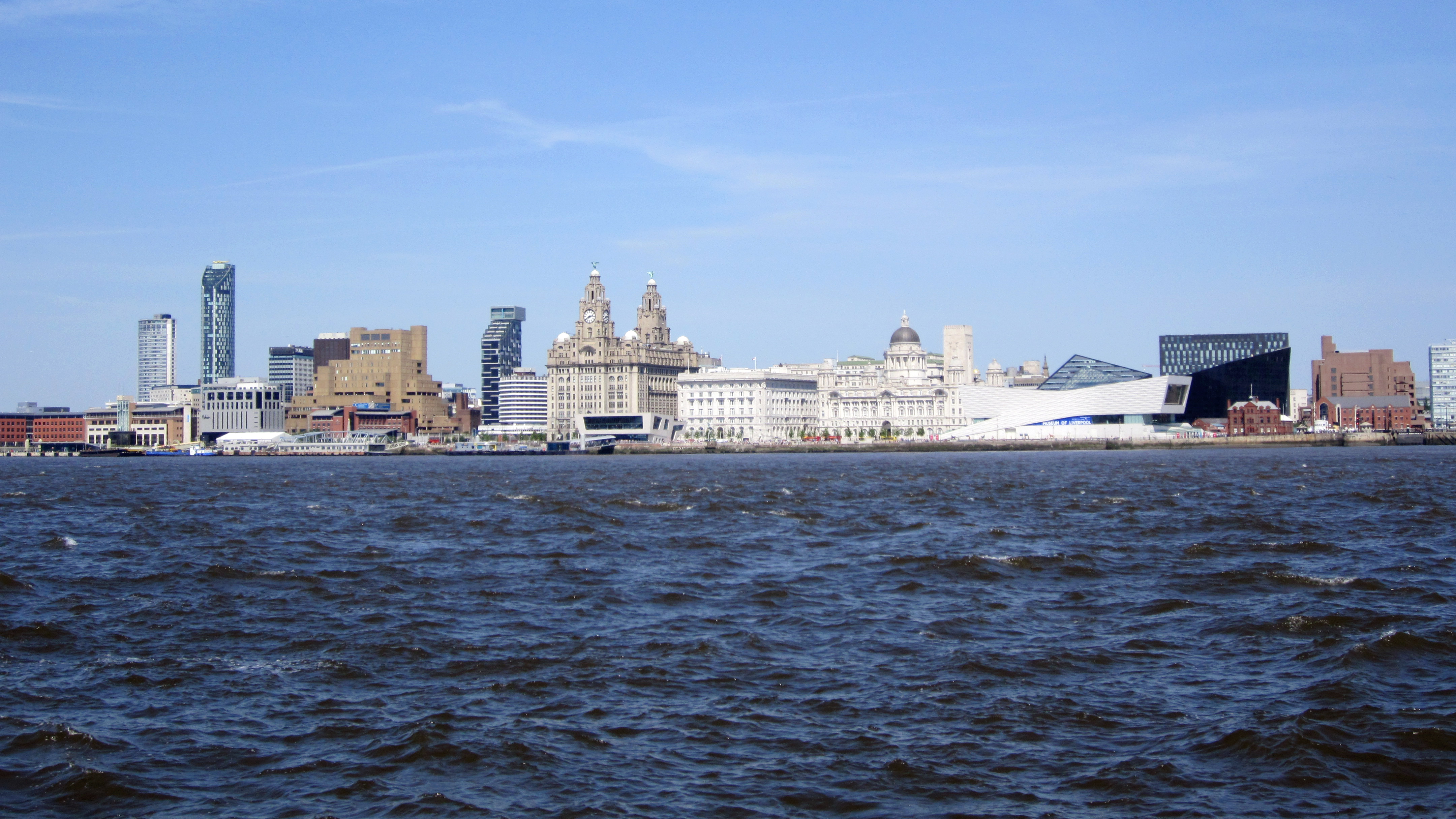 Part of the Liverpool skyline from the Mersey Ferry.